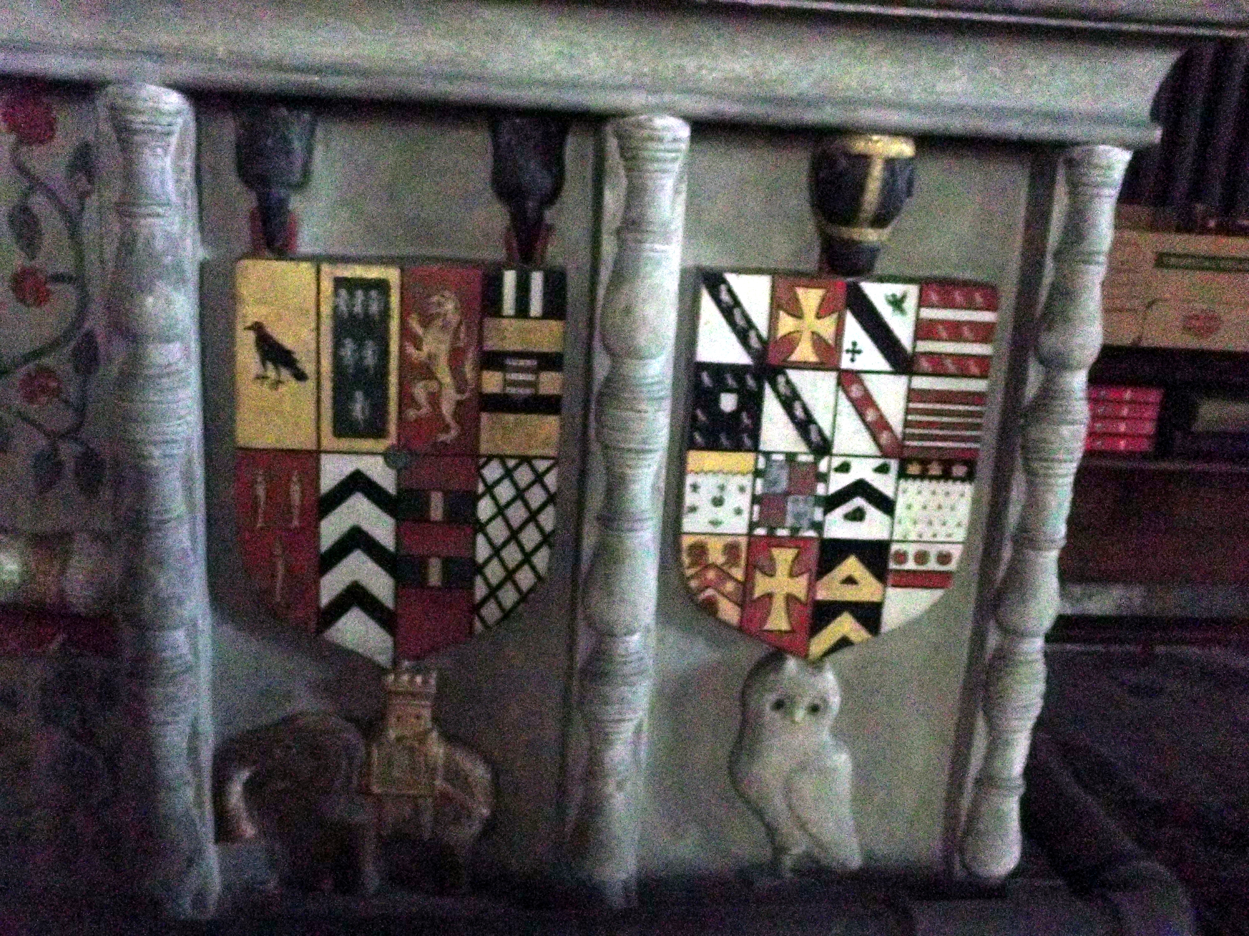 Church of St Bartholomew, Moreton Corbet, Shropshire. Tomb of Richard Corbet (died 1566) and his wife, Margaret Savile. Arms and emblems, including the Corbet elephant.